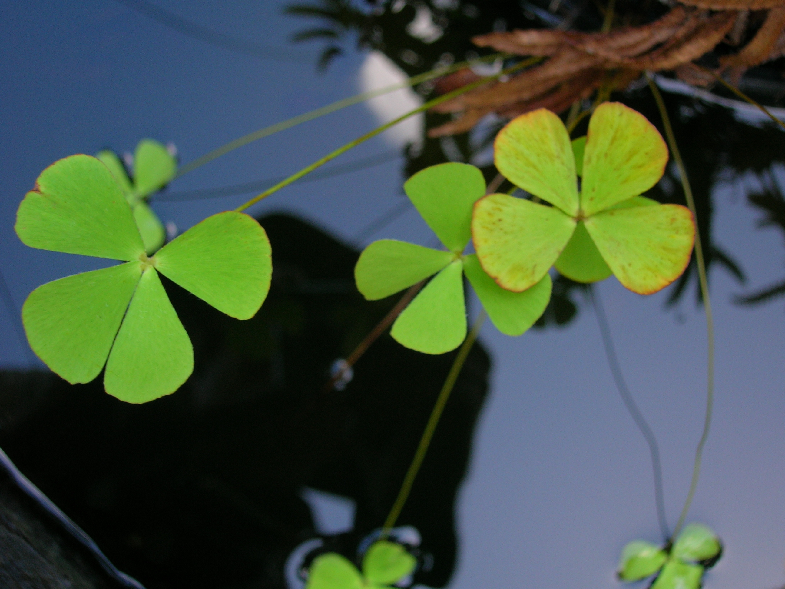 Marsilea villosa (in water garden). Location: Maui, Hoolawa Farms